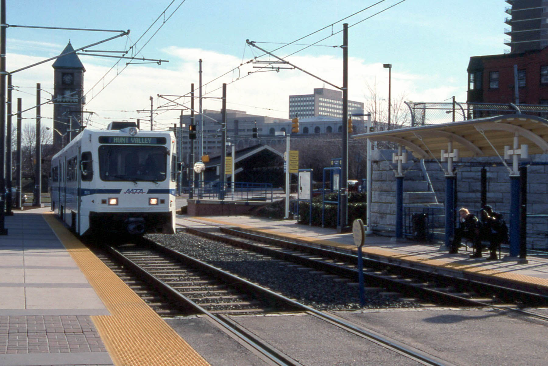 A northbound Baltimore Light Rail train at Mount Royal in March 2000